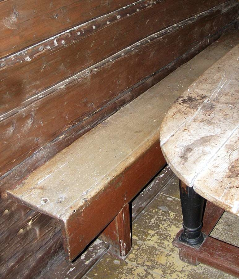 Wooden bench (langbenk) by the wall in Verdal, Trøndelag, Norway